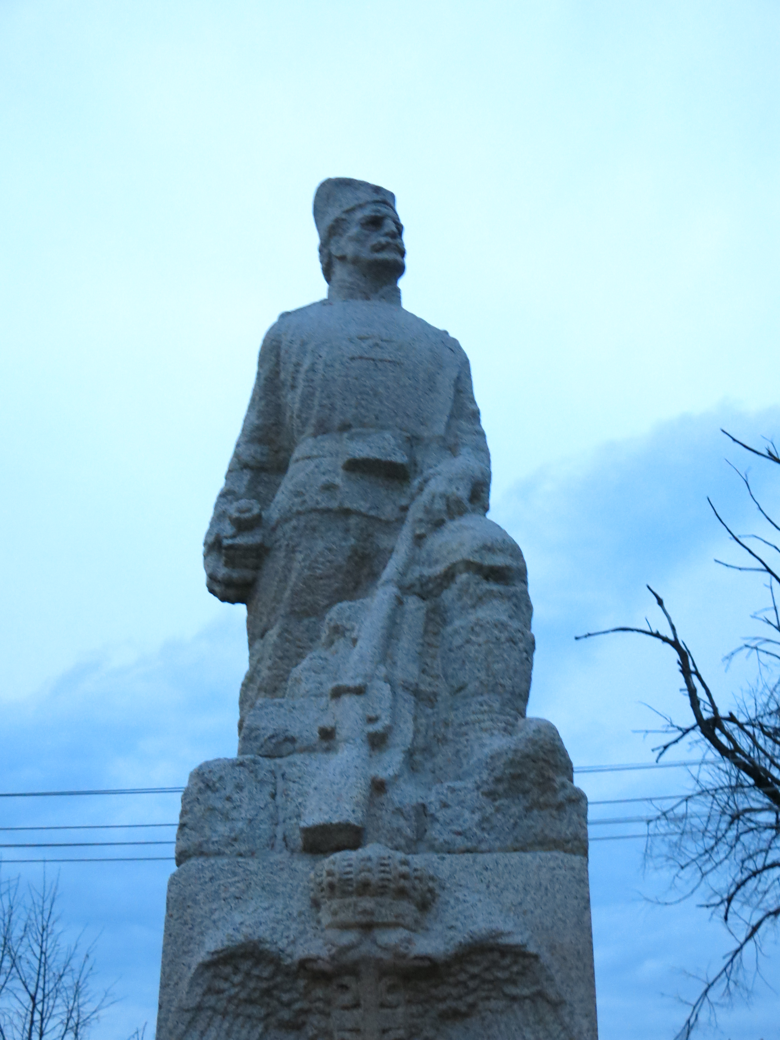 Štitar, Serbia, Monument to the fallen warriors